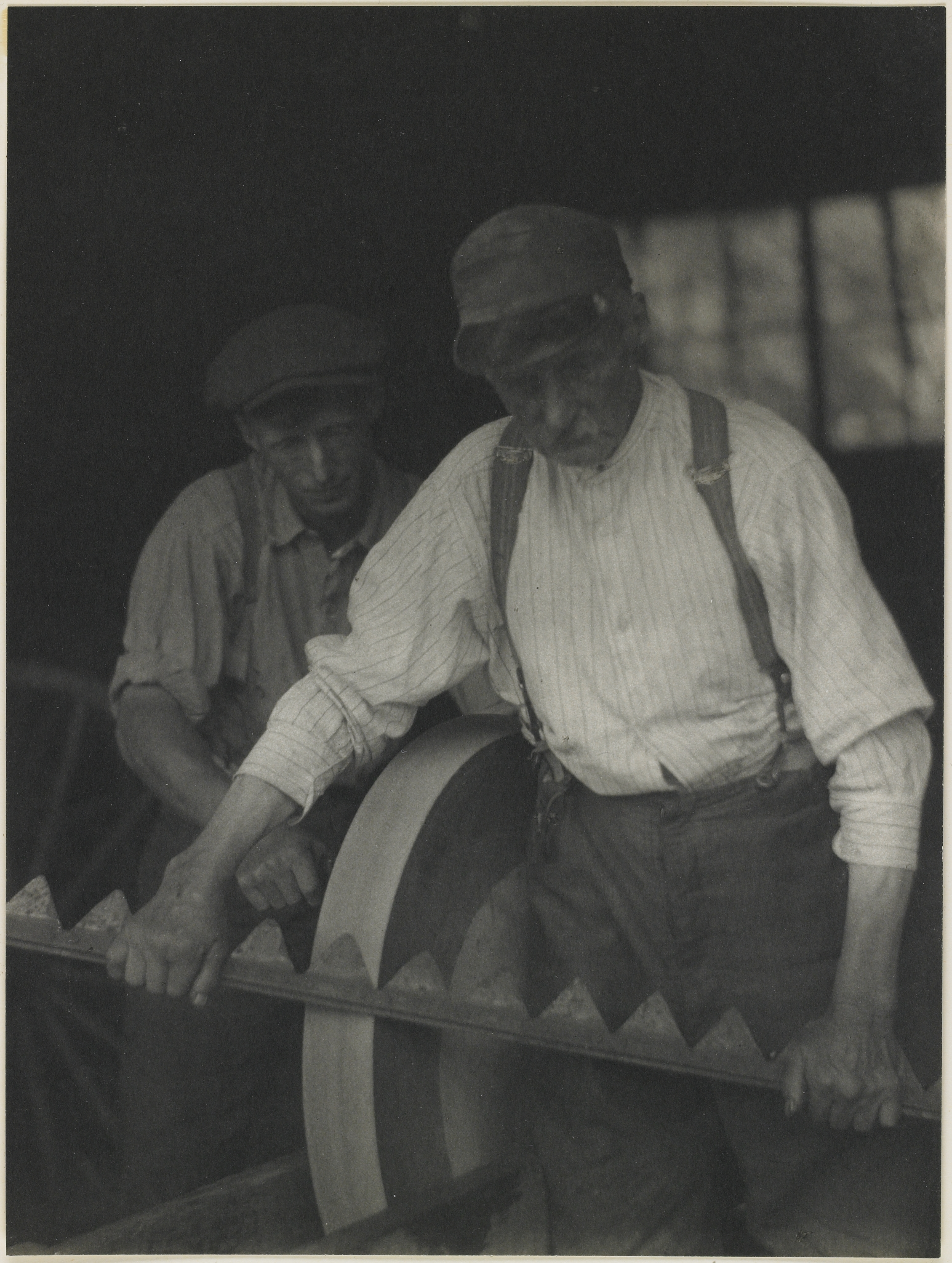 Doris Ulmann, American, 1882-1934; Two Men at Work; c. 1916-1925; Platinum print; 8 1/8 x 6 1/16 in. (20.64 x 15.4 cm) (image) 14 1/4 x 11 1/4 in. (36.2 x 28.58 cm) (mount); Minneapolis Institute of Art; The Ethelyn Bros Photography Purchase Fund 2000.240.1